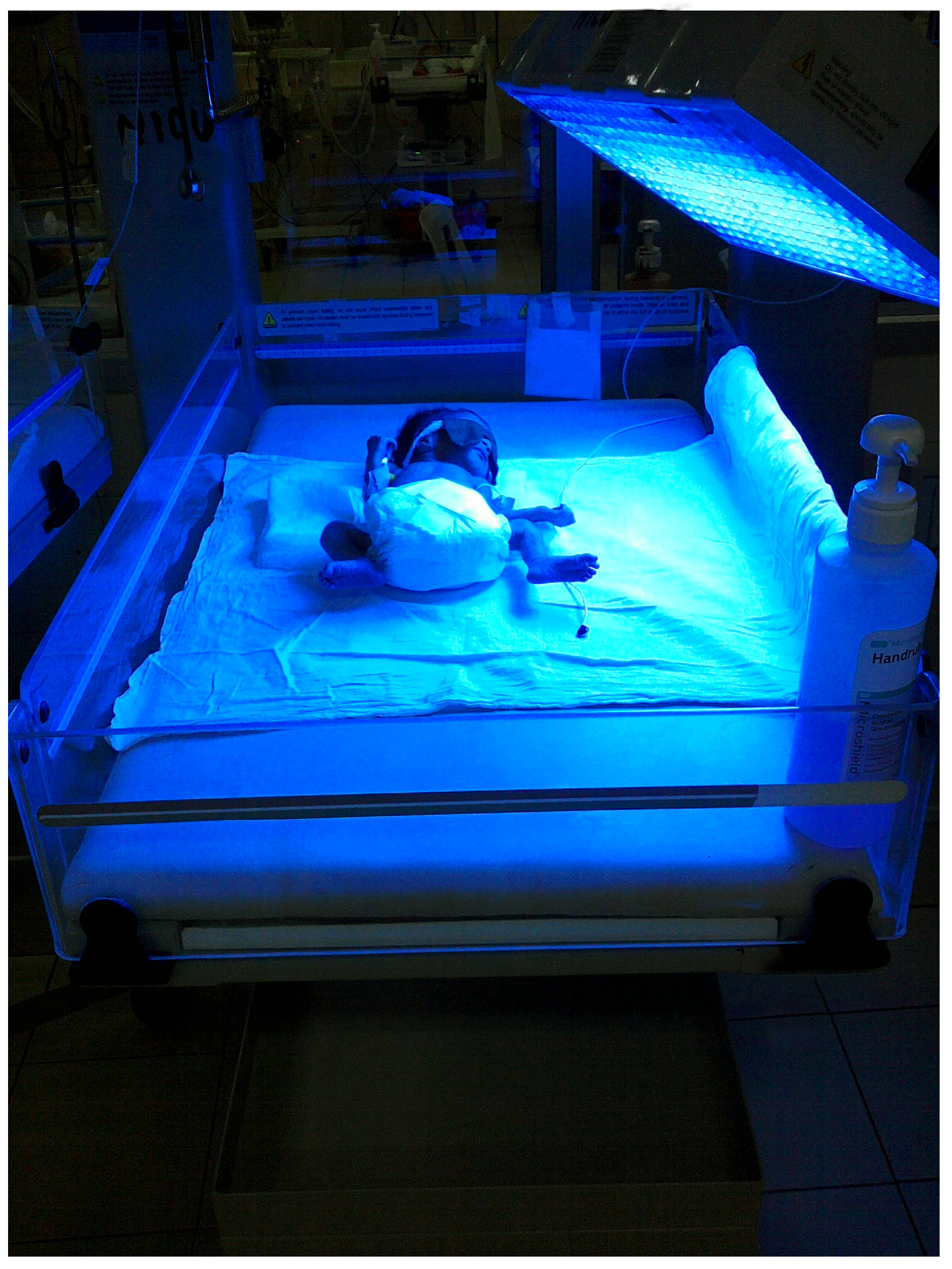 phototherapy of neonate for jaundice